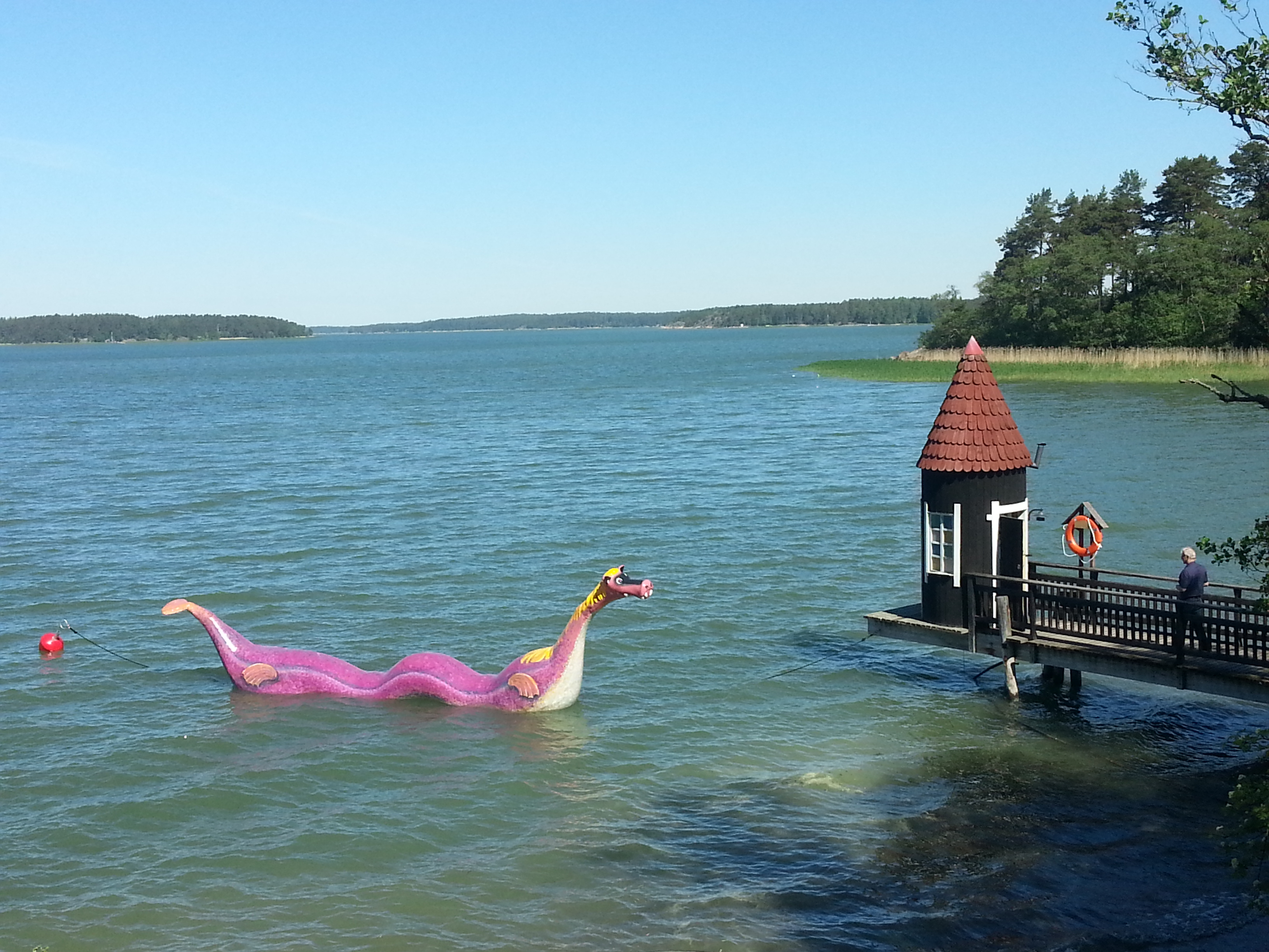 Edward the Booble (the second largest animal in the world) and the Bathing Hut, Moominworld, Finland